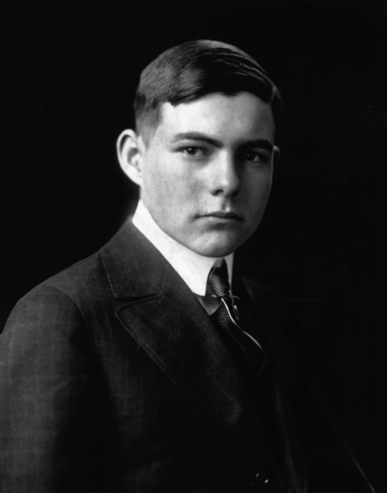 Portrait of Ernest Hemingway as a young man.